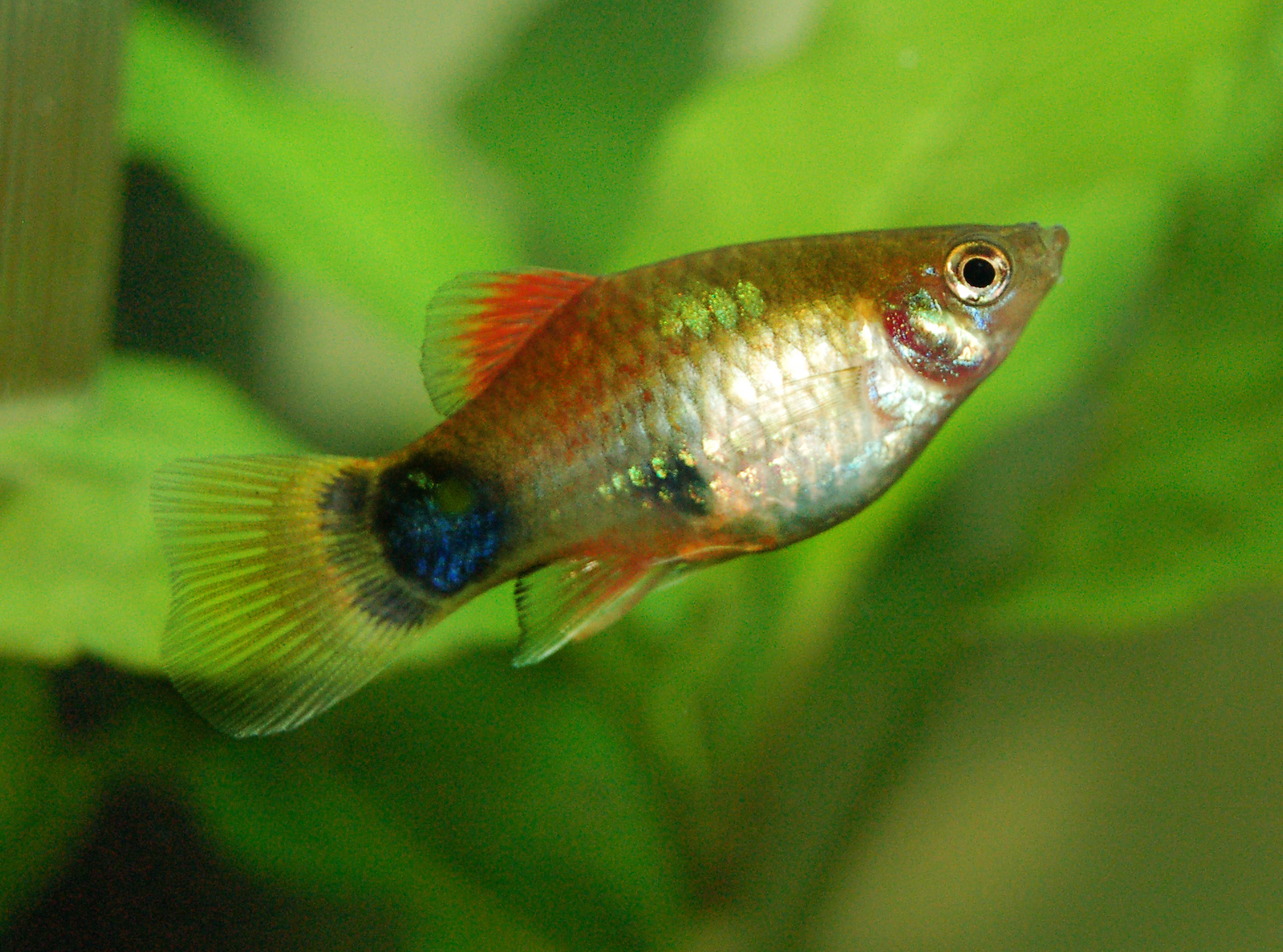 Xiphophorus maculatus, female, mickey mouse variety